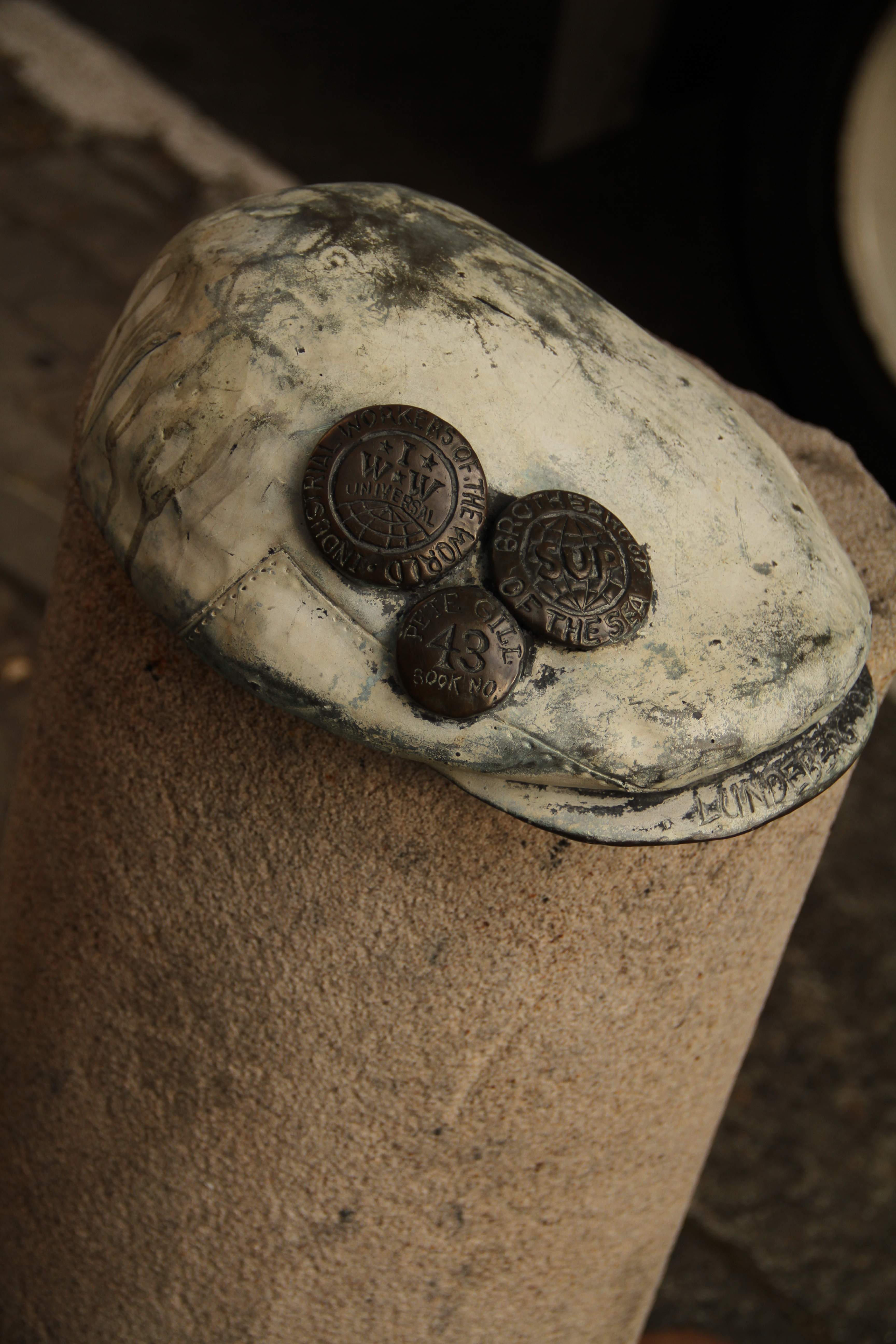 This monument commemorates Harry Lundeberg, and his efforts in the S.U.P. strike.